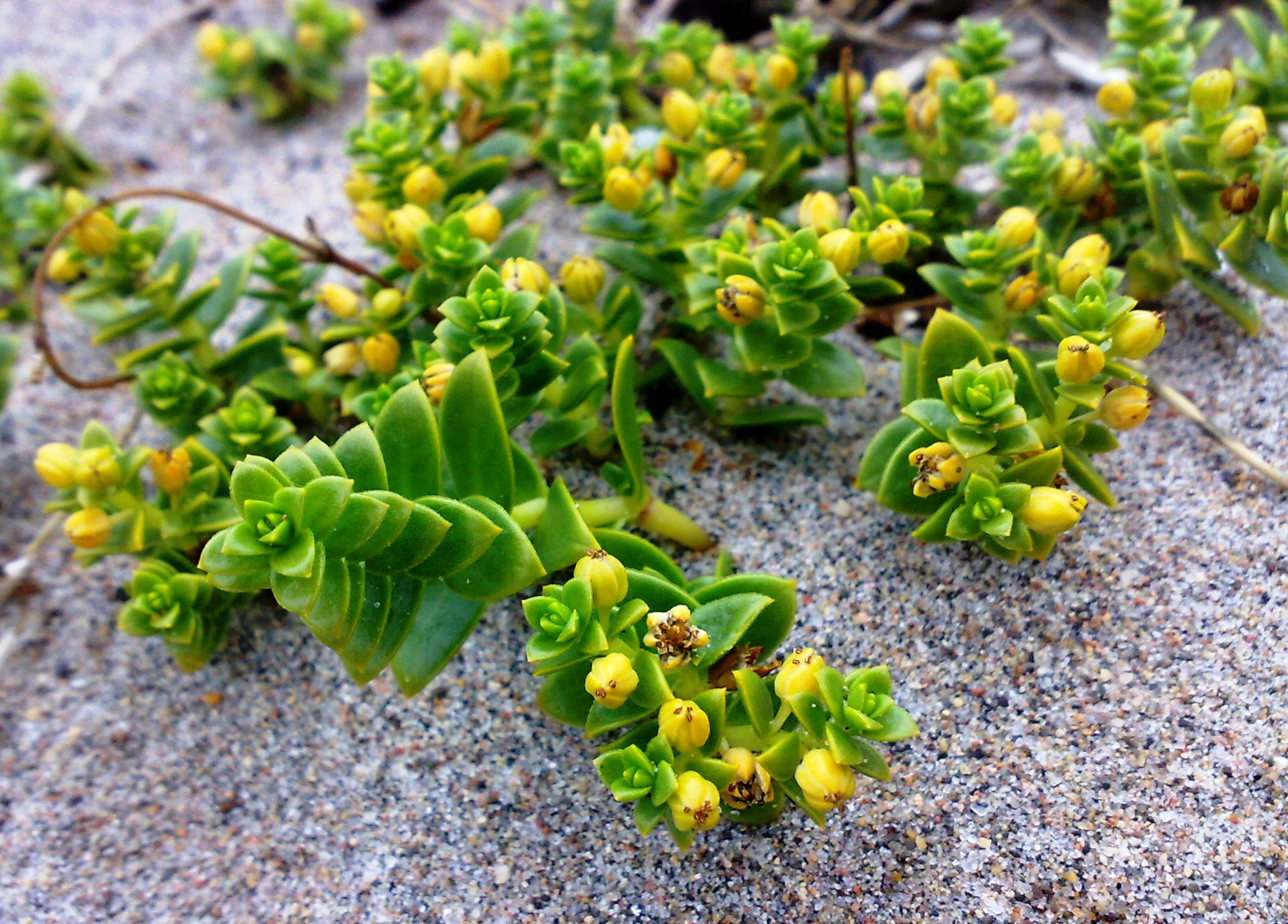 Honckenya peploides in Ersvika, Hurum (Norway)